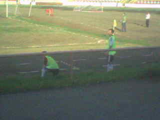 FC «Chita» spare players Vitali Seletskiy (№21, left) и Sergei Kovalenko (№22, right). Episode of the match «Chita» - «Metallurg-Enisey». 8th round of the competition in «East» zone of the Russian second division. May 31, 2010.